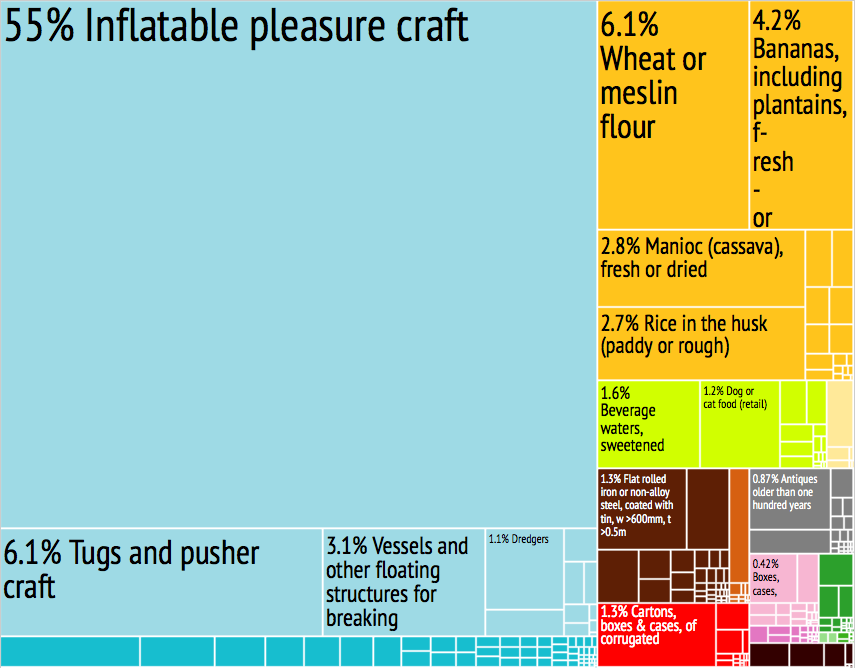 St. Vincent and the Grenadines Export Treemap from MIT Harvard Economic Complexity Observatory